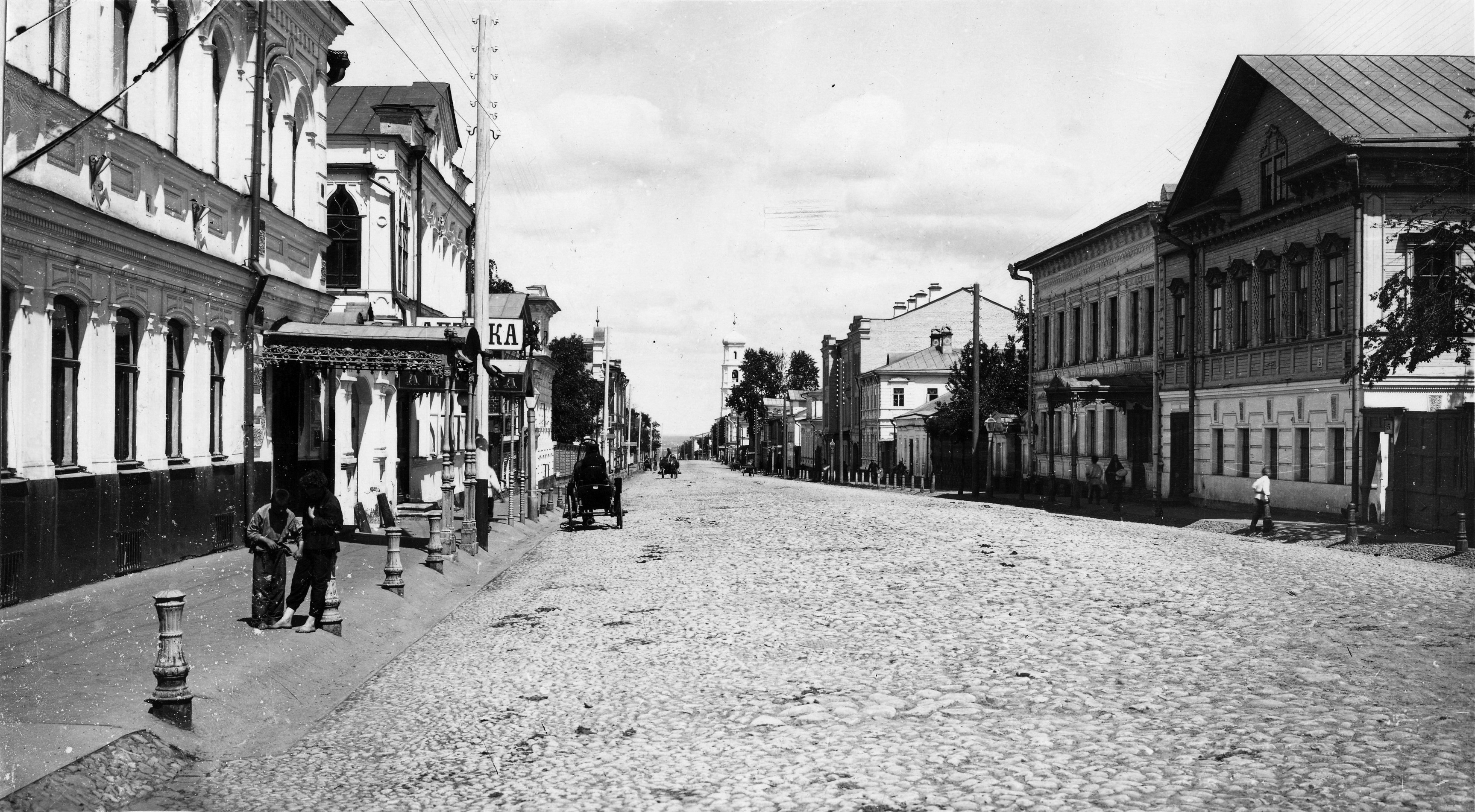 Ilyinskaya street in Nizhny Novgorod. About 1890